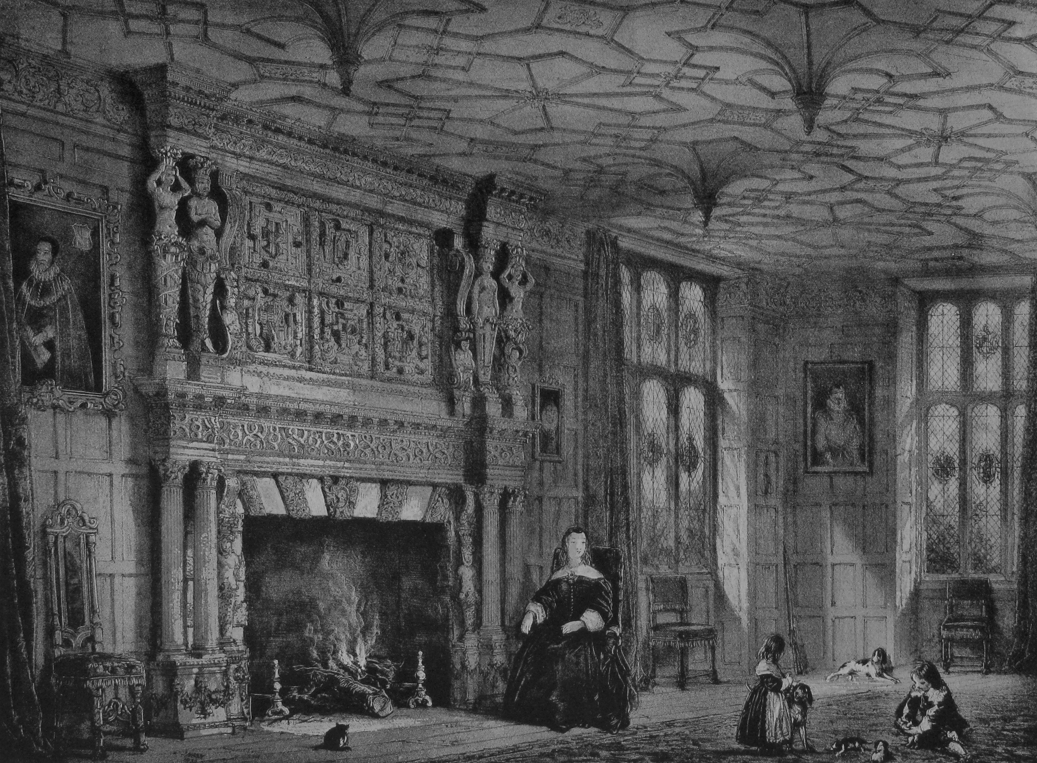 Loseley, near Guildford, Surrey: The Drawing Room